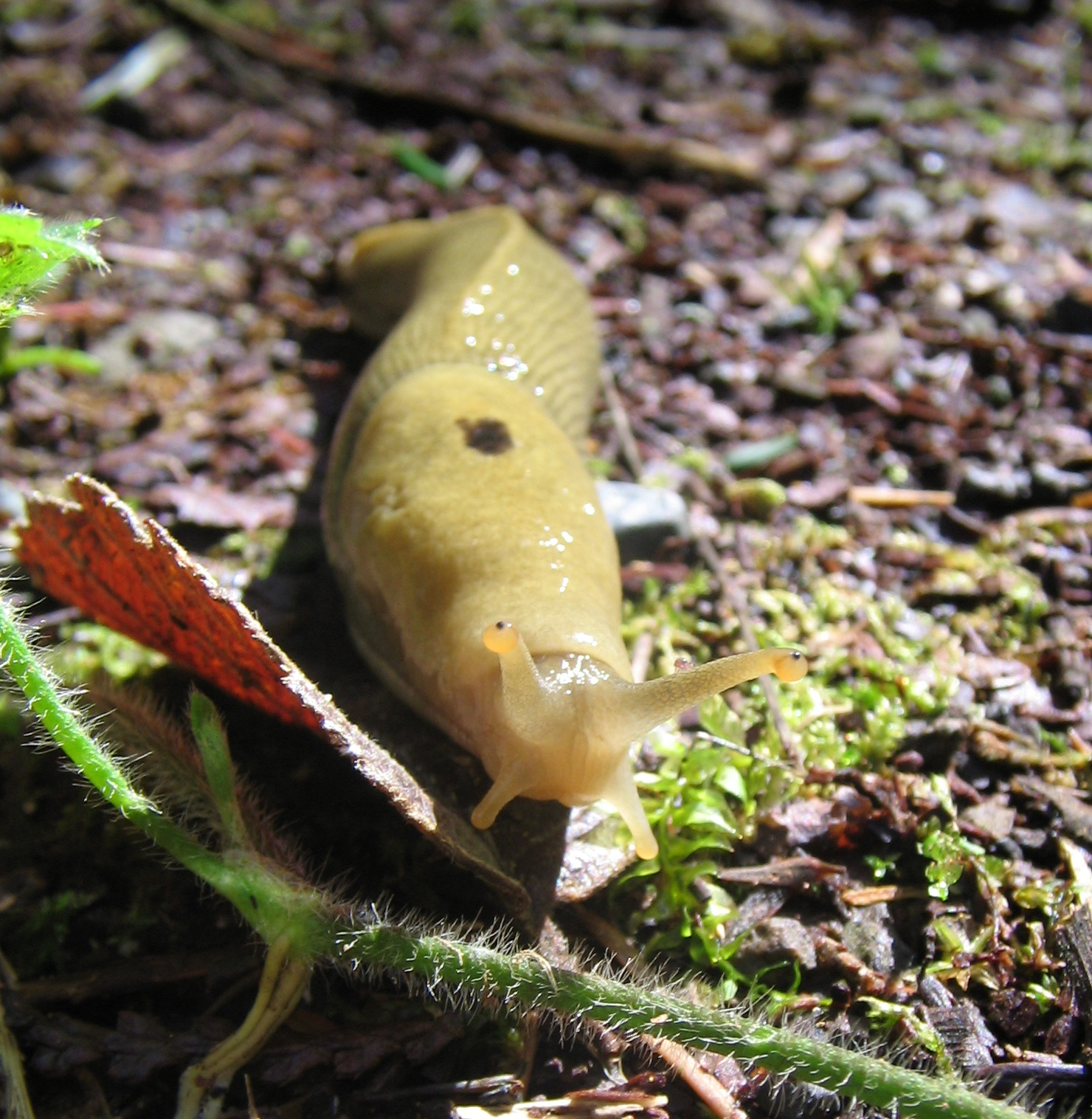 Close-up of a banana slug found in Stawamus Chief Provincial Park, British Columbia, Canada.